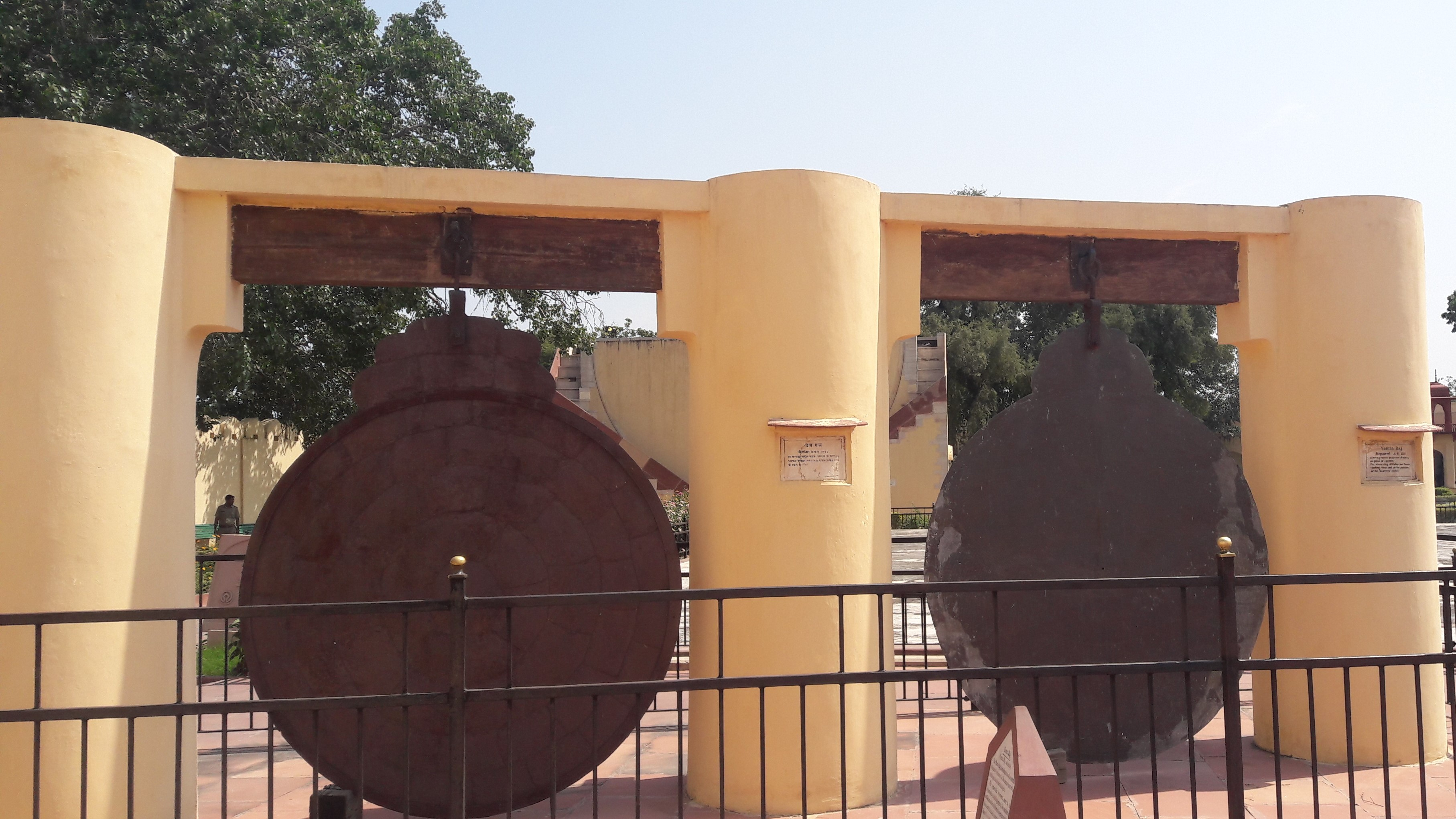 The Yantra Raj, is an adaptation of an astrolabe - a Medieval instrument for the measurement of time and positions of celestial objects.